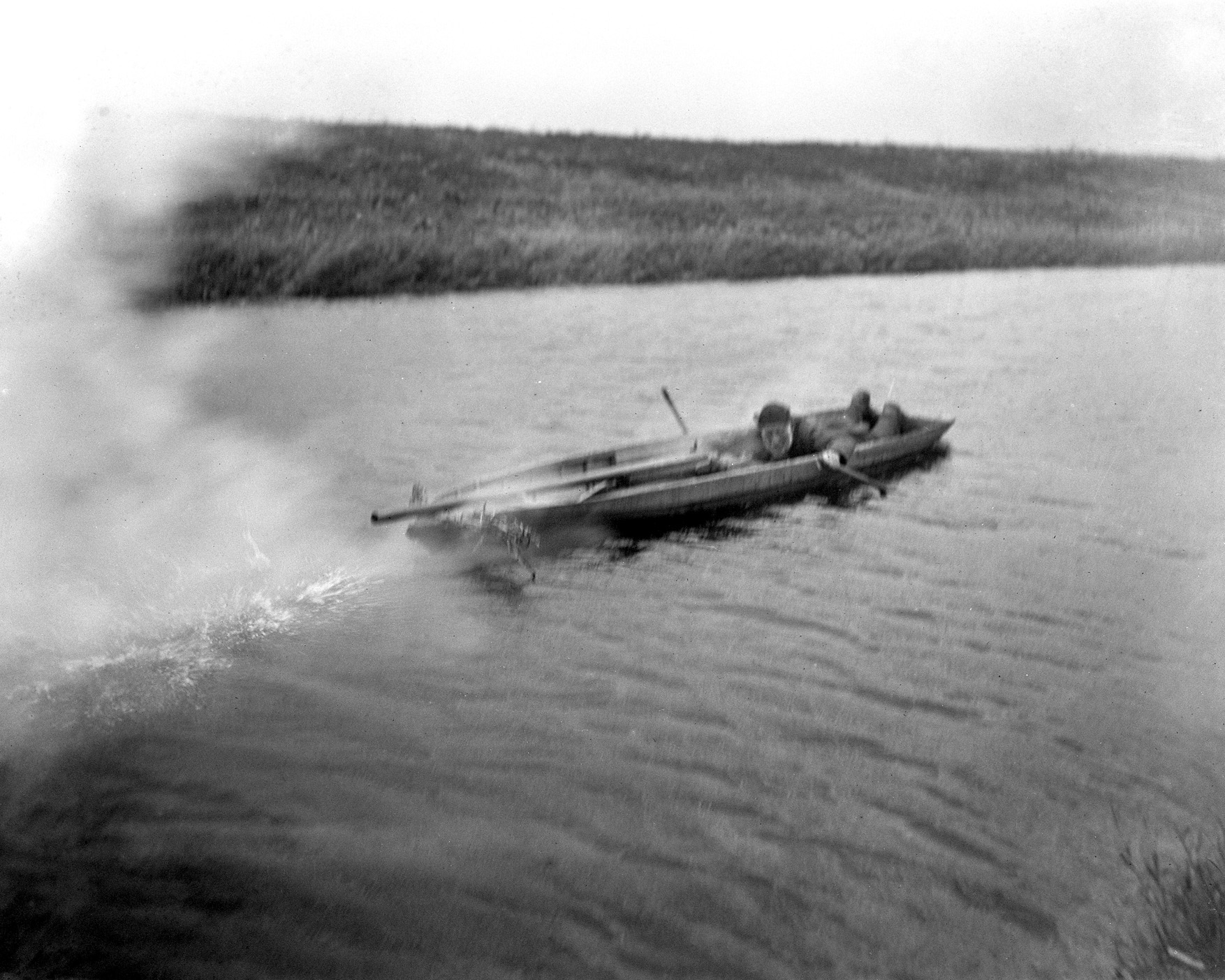 Snowden Slights is dressed in dark clothes.